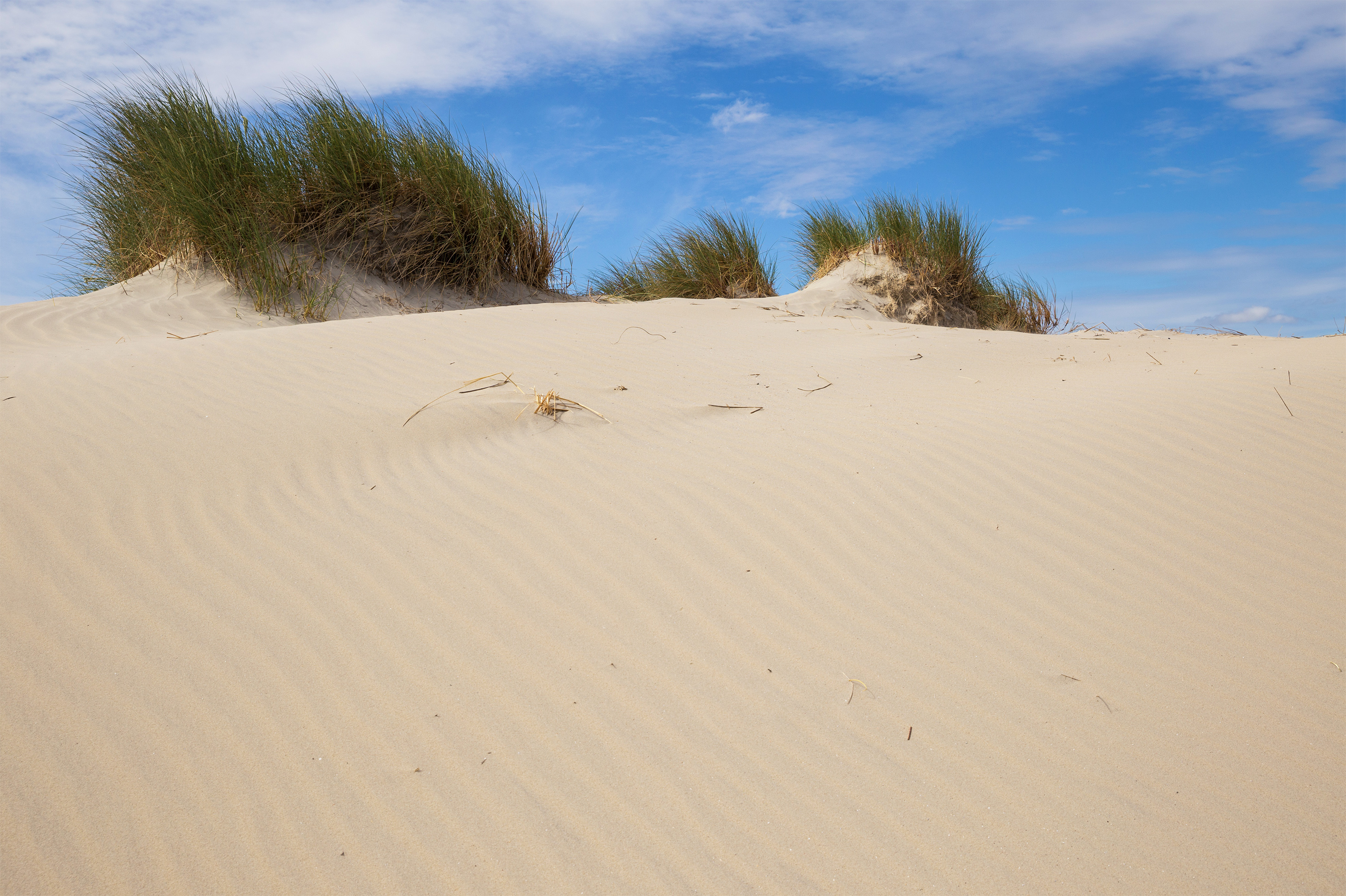 Borkum, dunes